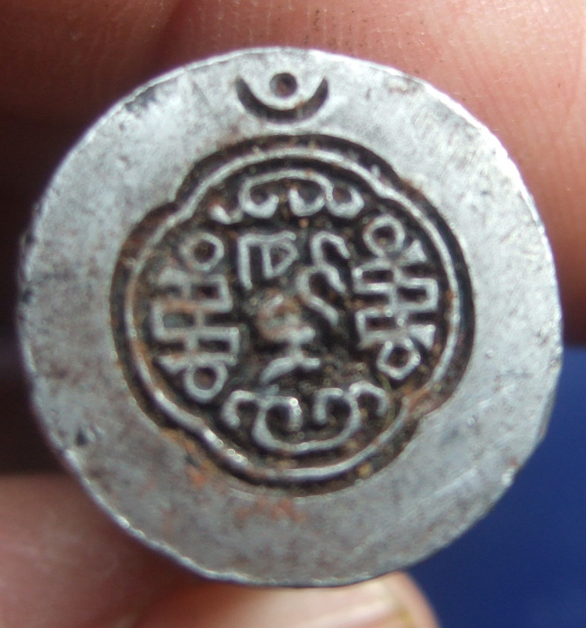 Tibetan seal with inscription and ornaments, sun and moon above, no. 9